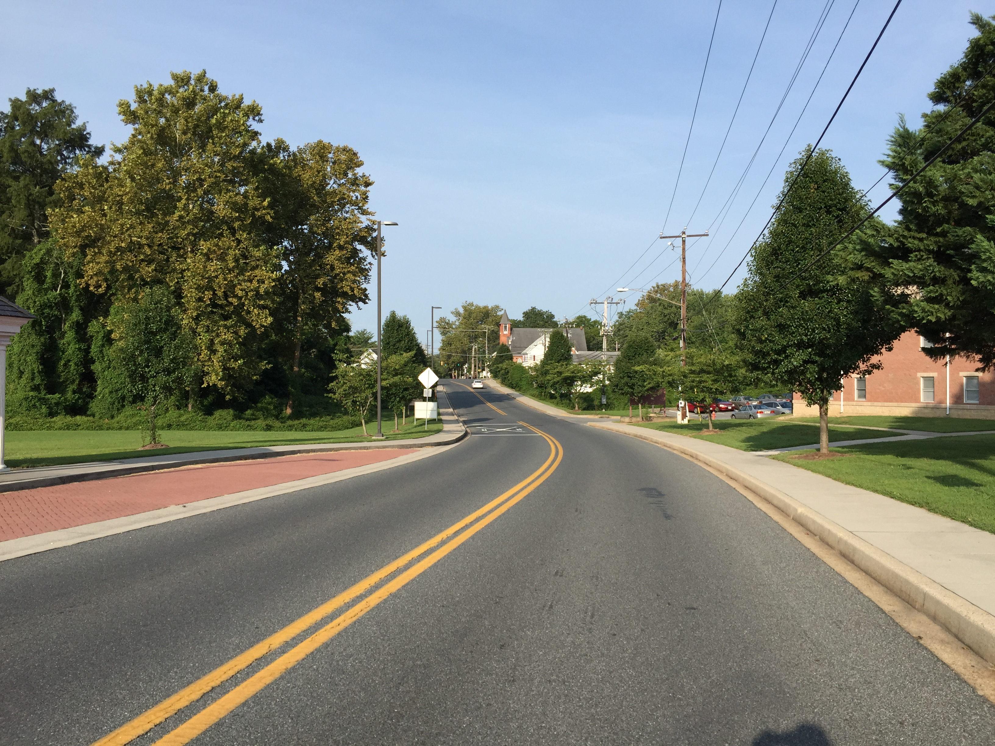 View west along Maryland State Route 918 (Dr. William P. Hytche Boulevard) at University Boulevard and College Backbone Road at the University of Maryland - Eastern Shore Research and Education Center just east of Princess Anne in Somerset County, Maryland